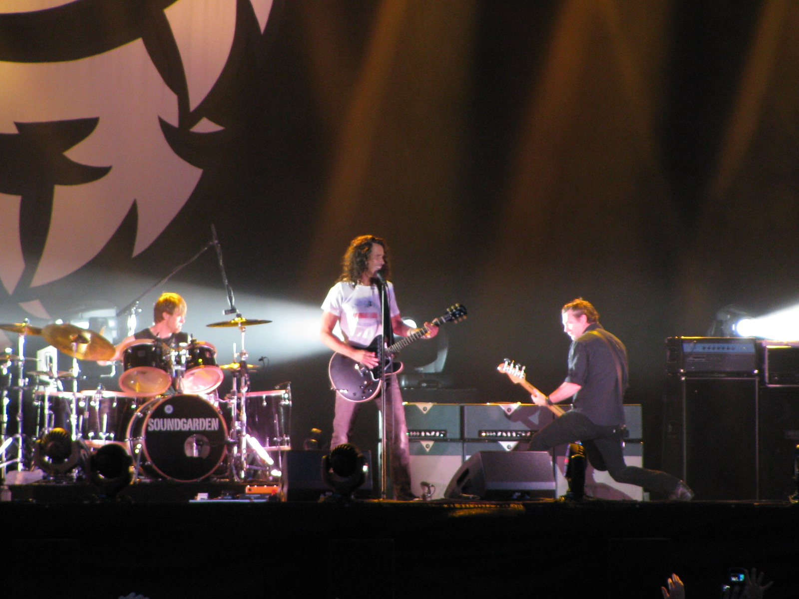 Soundgarden live at 2010